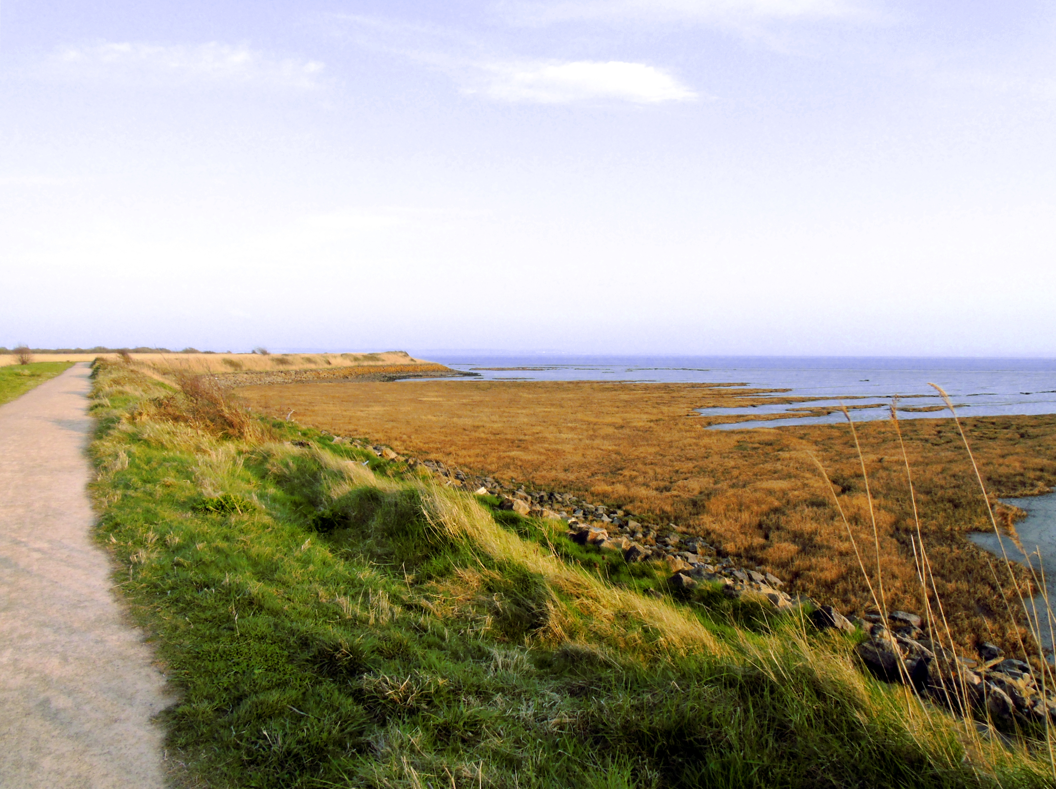 View of Severn Estuary From Newport Wetlands RSPB Reserve